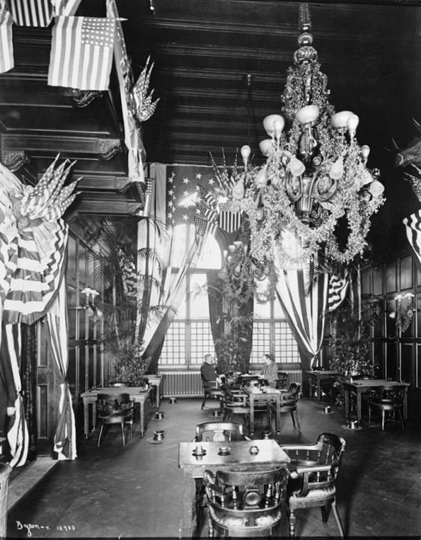 7. Historic American Buildings Survey, Photocopy, c. 1901, Courtesy of the Museum of the City of New York, CAFE AT MANHATTAN CLUB (CONNECTING SECTION). - Leonard W. Jerome Mansion, 32 East Twenty-sixth Street, New York, New York County, NY